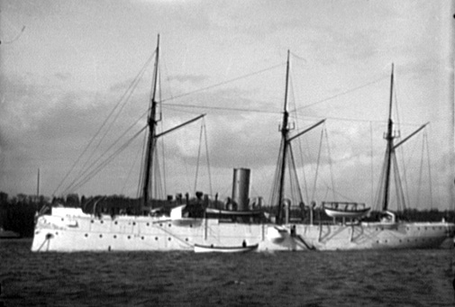 USS Yorktown (PG-1) at anchor, c. 1890–1901. Description from source: TITLE U.S.S. Yorktown CALL NUMBER LC-D431-15122 [P&P] REPRODUCTION NUMBER LC-D431-T01-15122 (b&w film dup. neg.) MEDIUM 1 negative : glass ; 16 x 20 in. CREATED/PUBLISHED [between 1890 and 1901] RELATED NAMES Detroit Publishing Co., publisher. NOTES Port view at anchor. "Detroit Photographic Co." on negative. Detroit Publishing Co. no. 015122. Gift; State Historical Society of Colorado; 1949. SUBJECTS Yorktown (Gunboat) Gunboats--American. FORMAT Glass negatives. PART OF Detroit Publishing Company Photograph Collection REPOSITORY Library of Congress Prints and Photographs Division Washington, D.C. 20540 USA DIGITAL ID (digital file from intermediary roll film of dup. neg.) det 4a33084 CONTROL # det1994025138/PP